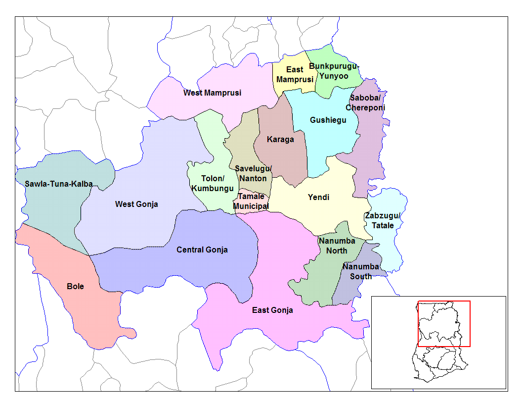 from districts of ghana Map of the districts of the Northern region of Ghana. Created by Rarelibra for public domain use. Created using MapInfo Professional v7.5 and various mapping resources.11 I, the creator of this work, hereby release it into the public domain. This applies worldwide. In case this is not legally possible, I grant any entity the right to use this work for any purpose, without any conditions, unless such conditions are required by law. File history